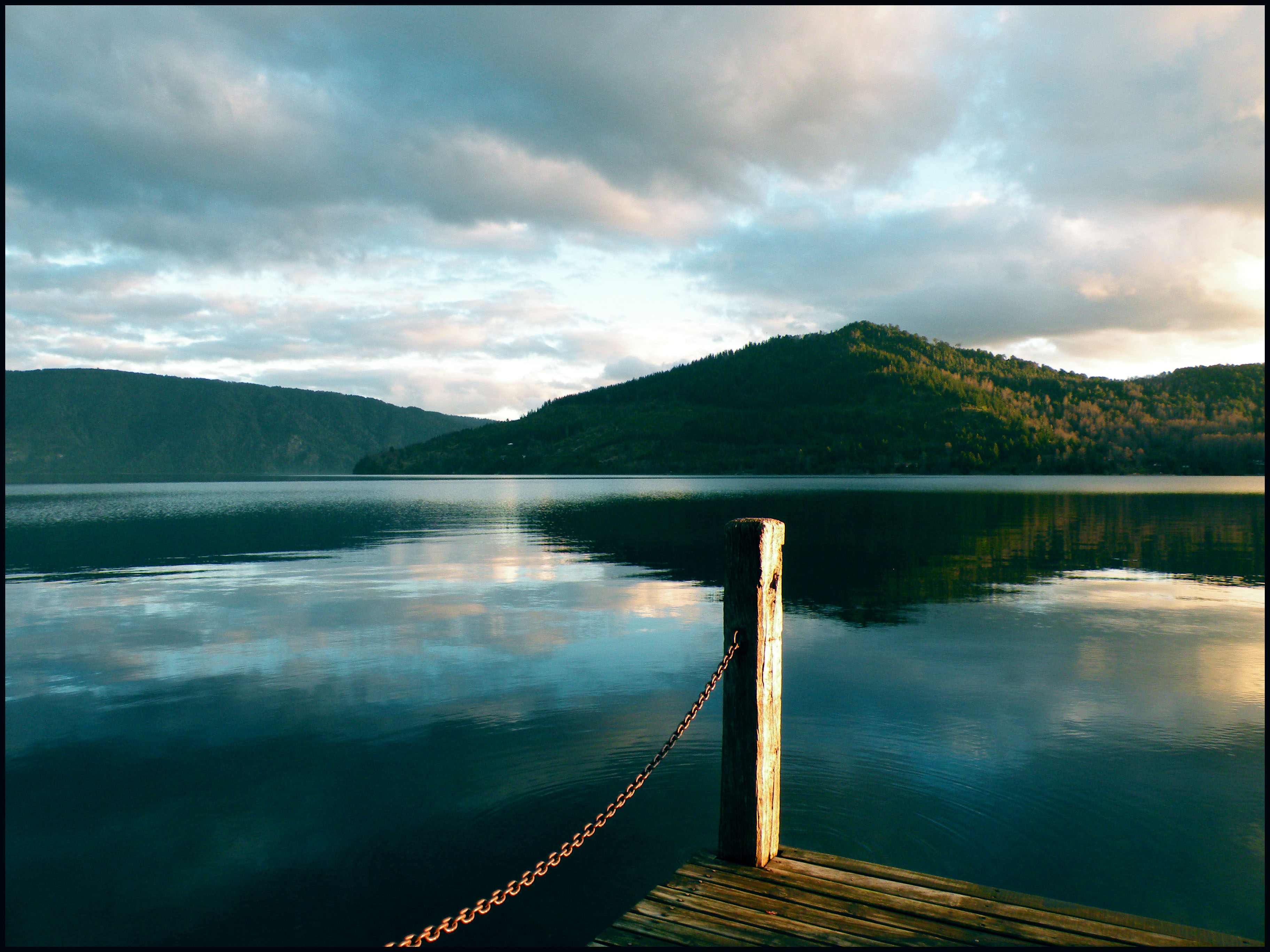 The Sound Of Silence